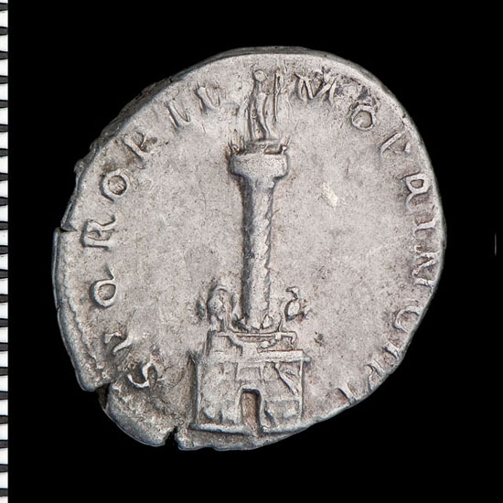 Trajan's Column, Rome - still standing today, part of the Llanavaches Roman coin hoard.